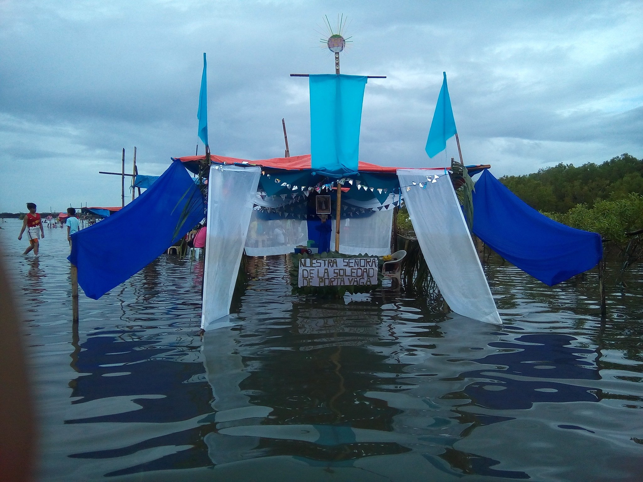 Photo by: Lucena Camilon Mendoza